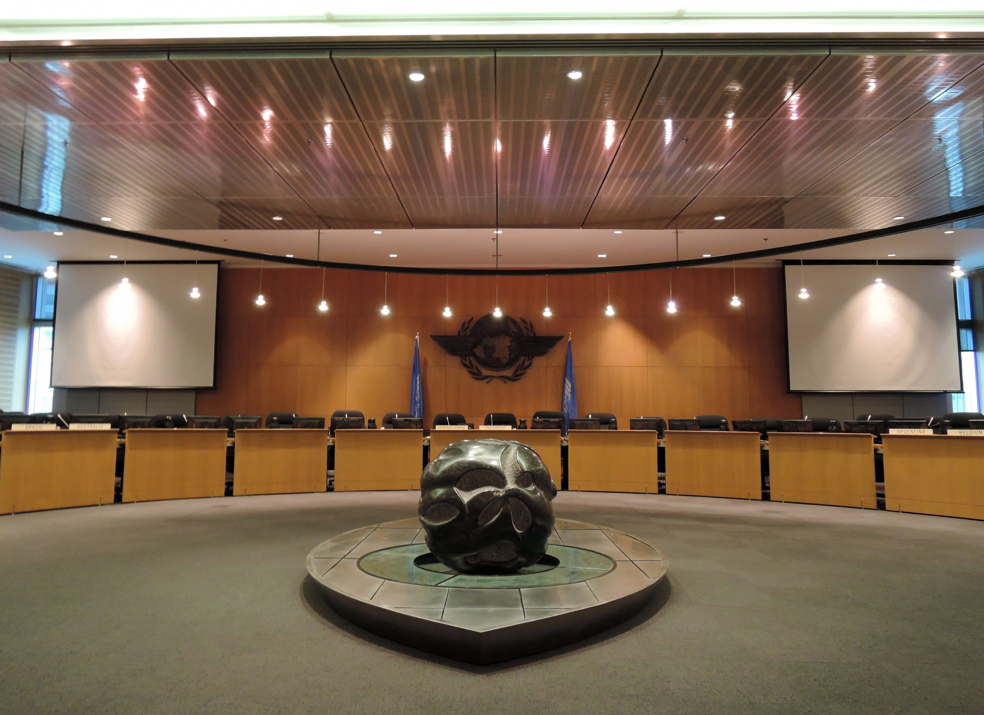 Photo taken in 2013